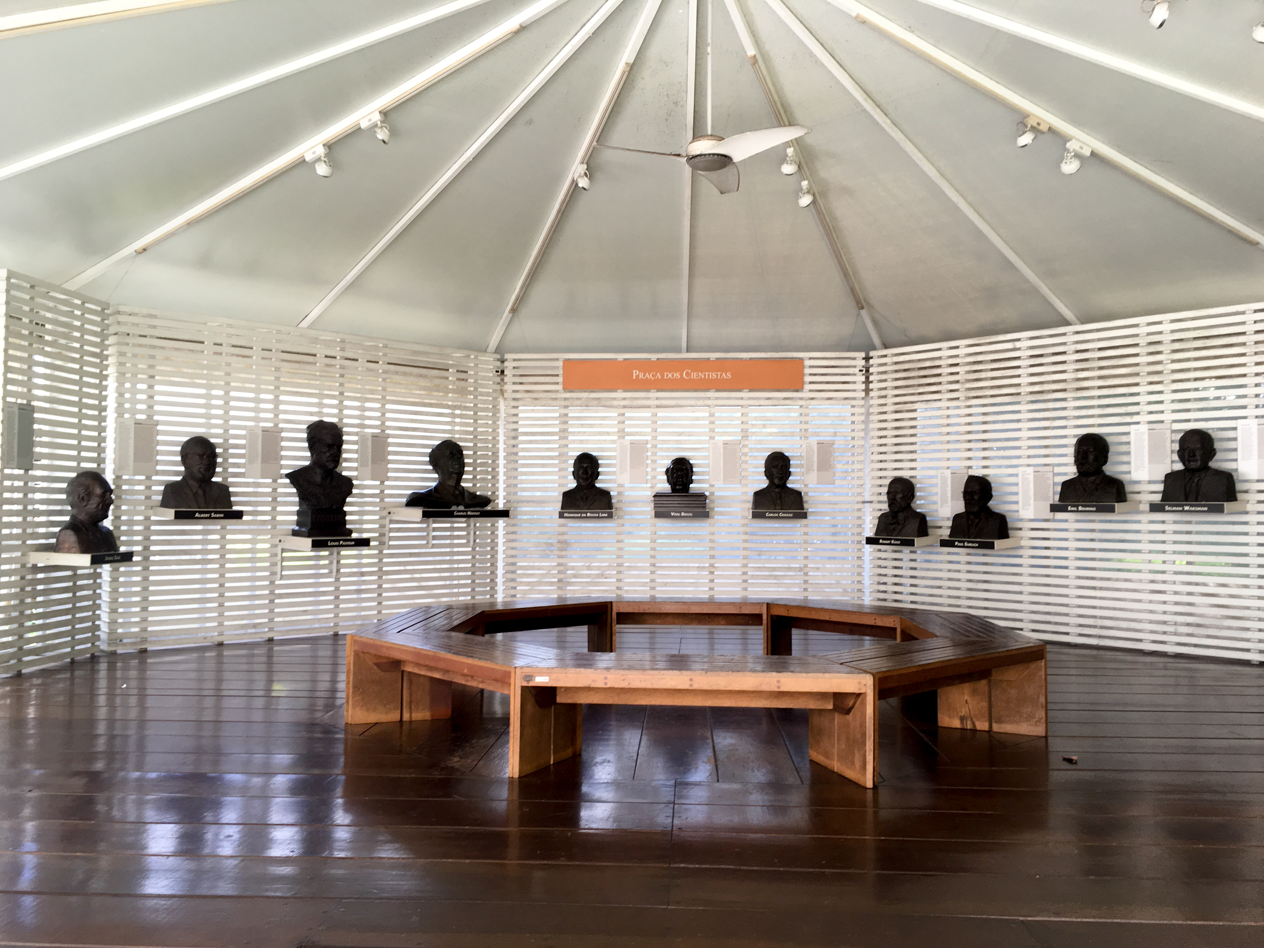 Instituto Butantan, São Paulo, Brazil.